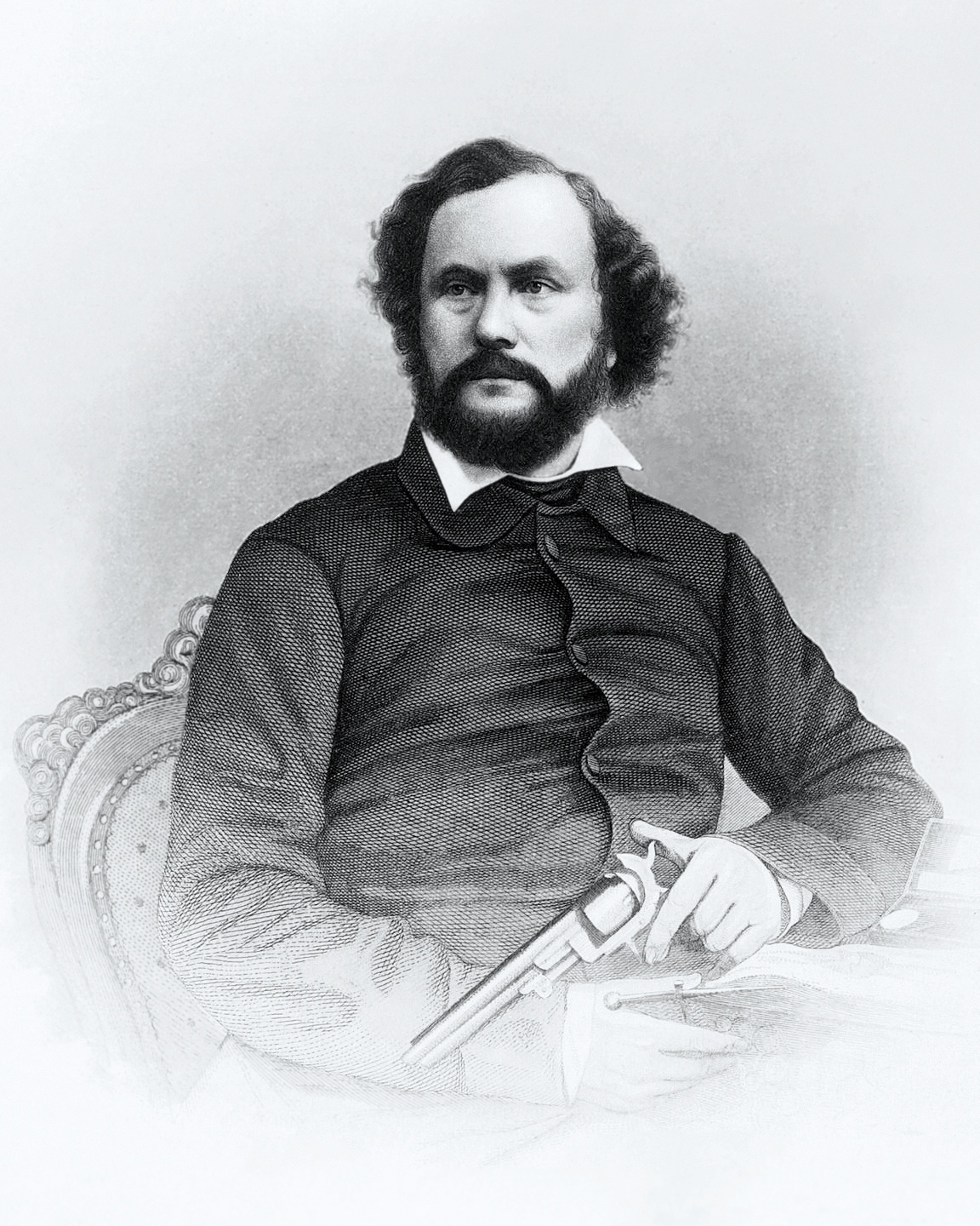 Steel Engraving of Samuel Colt with a Colt 1851 Navy Revolver. Based on a lost daguerreotype by Philipp Graff (1814-1851) taken between 1847 and 1851.